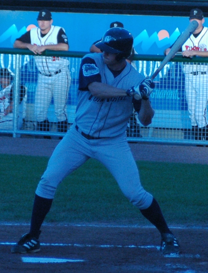 Minor league baseball player Chase Headley batting for the Fort Wayne Wizards at Lansing, Michigan. Cut down from original source to focus on Headley only.